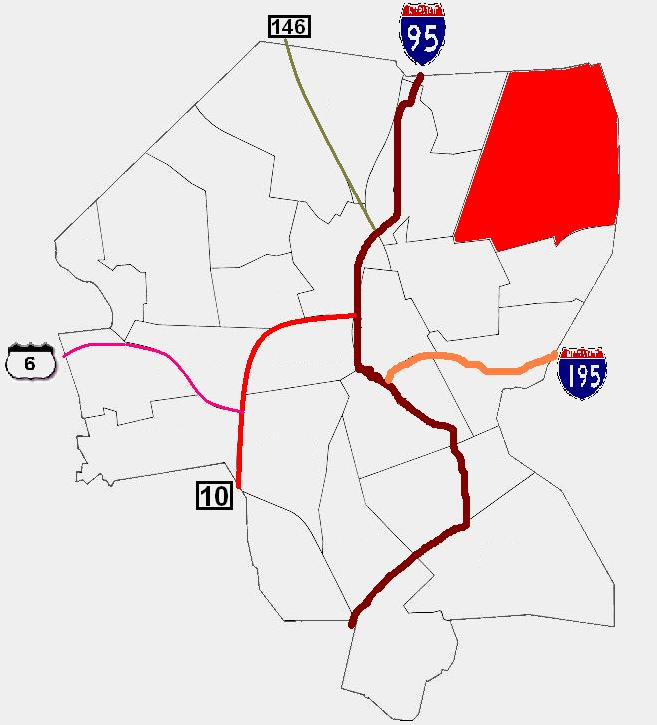 Self-made on MSPaint. Providence neighborhoods with Blackstone in red.